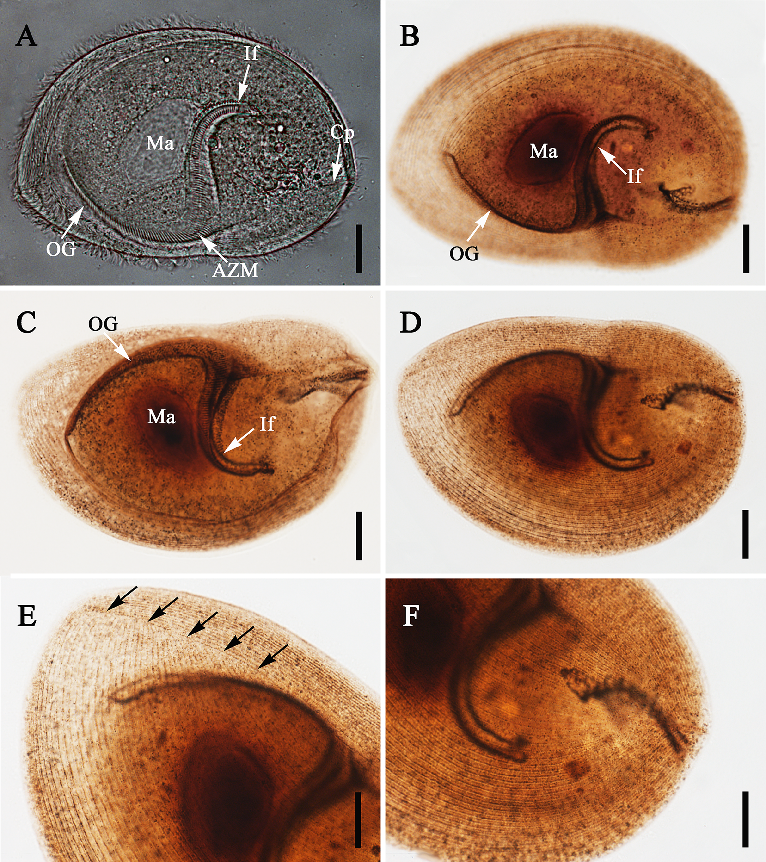 Figure 1 of paper Light microscope images of Sicuophora multigranularis. (A) Left surface view of a living, representative specimen, to show the macronucleus (Ma), oral groove (OG), adoral zone of membranelles (AZM), infundibulum (If), and cytoproct (Cp). Scale bar = 30 μm. (B)–(F) Specimens stained with protargol. (B)–(C) Left and right side view showing the oral groove (OG), infundibulum (If), and macronucleus (Ma). Scale bar = 30 μm. (D) Right side overview, showing the somatic kinety pattern. Scale bar =30 μm. (E) Detail of anterior body region, showing the apical, right suture (arrows). Scale bar = 20 μm. (F) Detail of posterior body region, showing the course of right side ciliary rows. Scale bar = 20 μm.